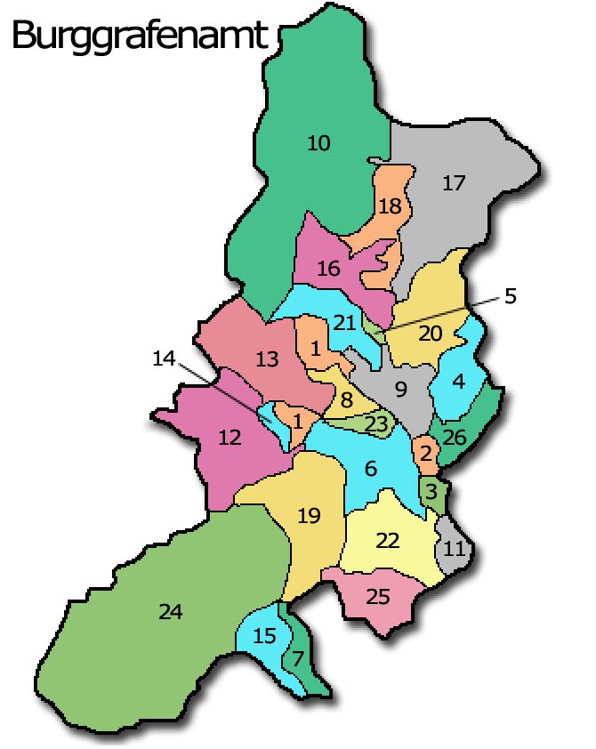 Comune of the Burggrafenamt, sorted by English/German wiki nameing convention- based on map by User:Mortadelo2005